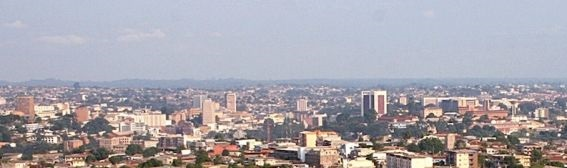 Yaounde Panoramic view